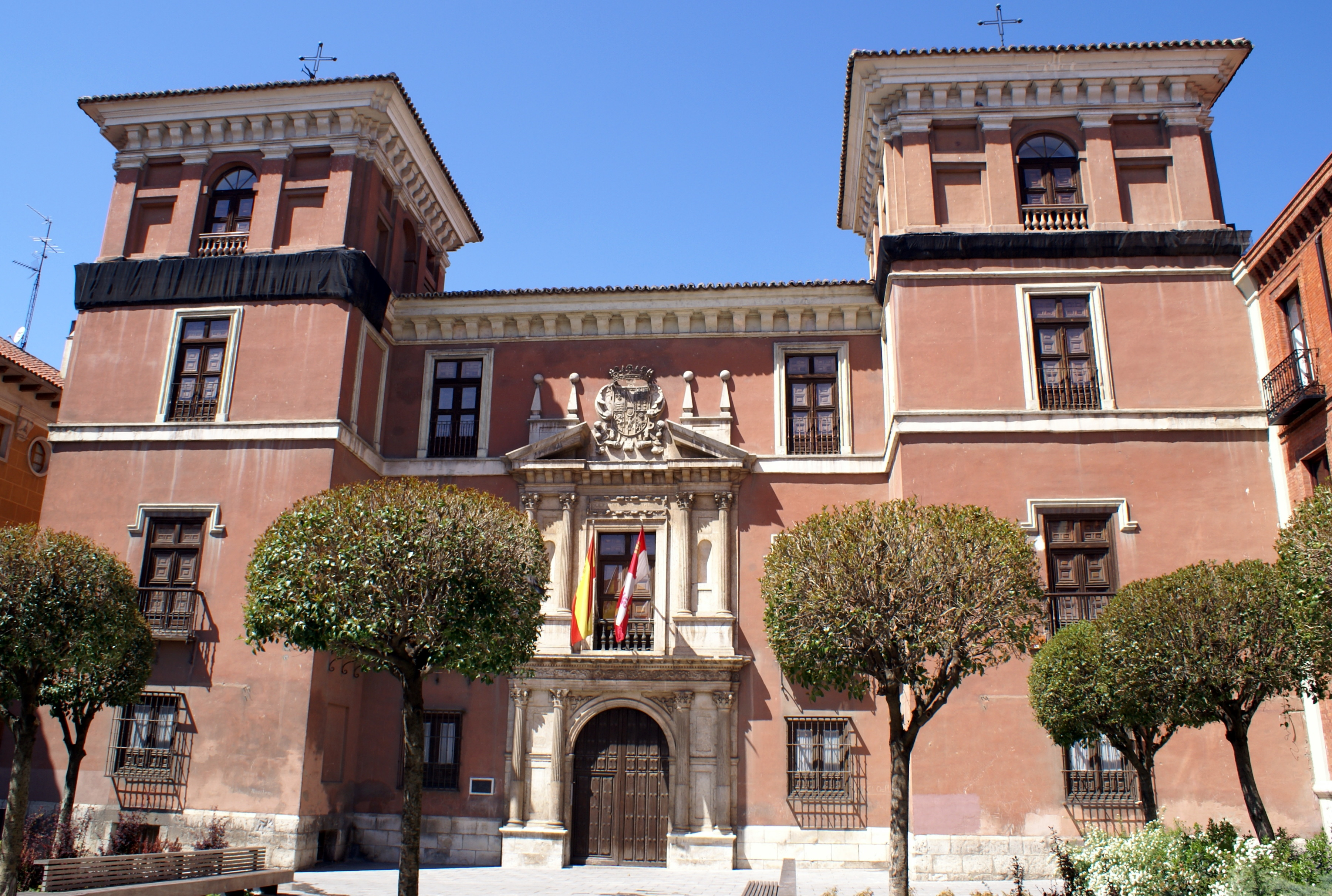 Frontal view of the façade of the Palace of Fabio Nelli, Valladolid.